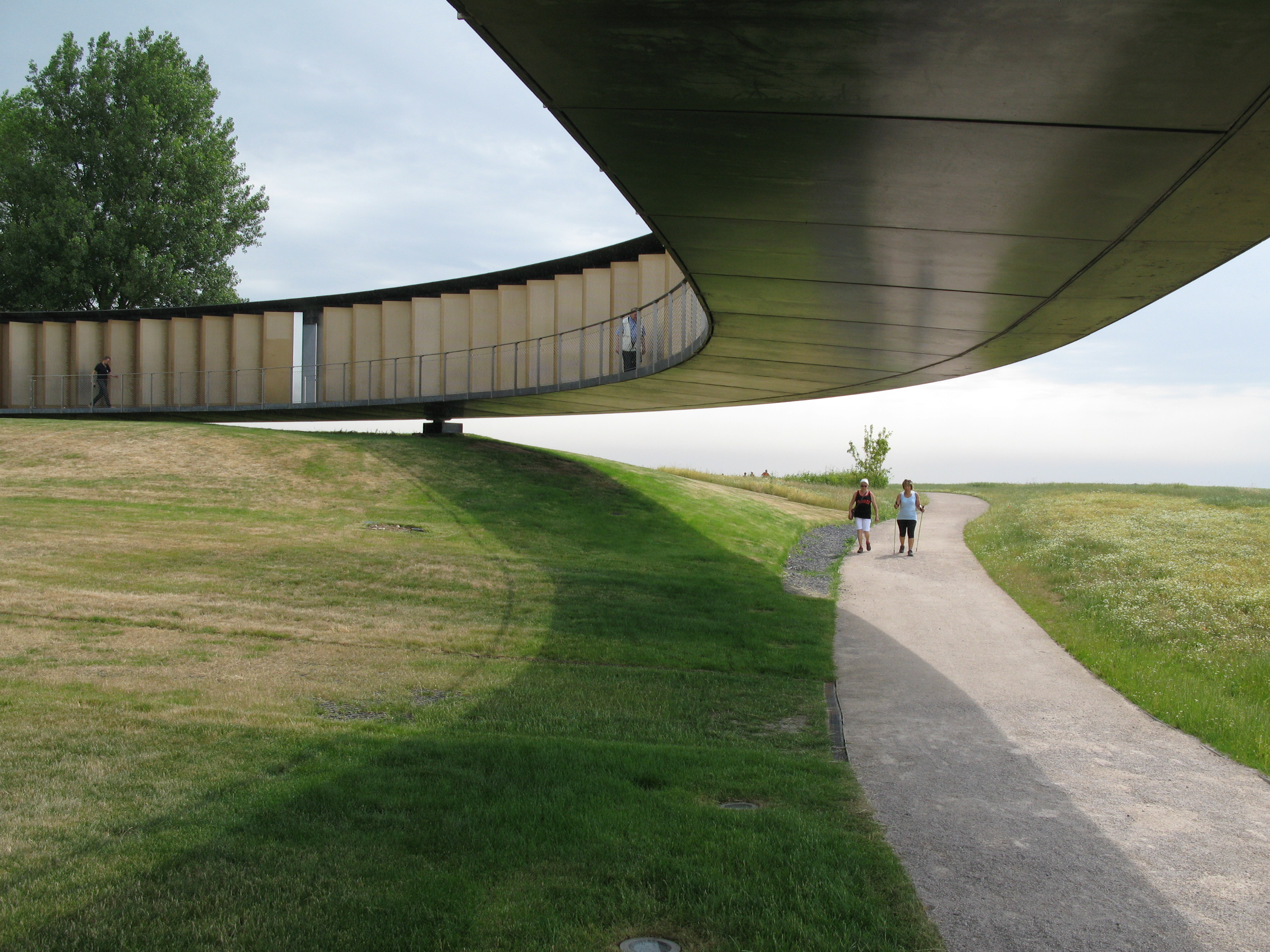 L'Anneau de la Mémoire, image 8